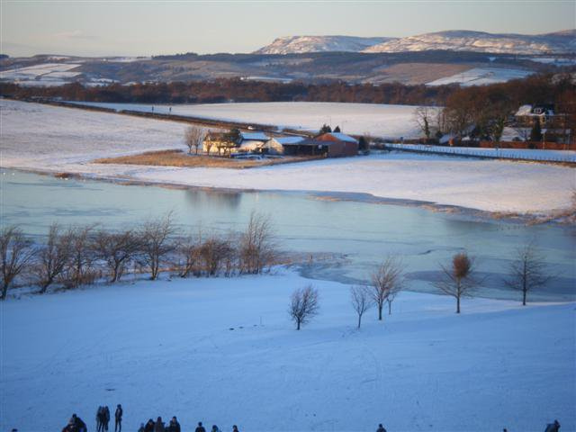 snow,winter,lenzie,december 2010,farm loch,gadloch,frozen,ice,golf,course,trees,flooded,flooding,golfcourse